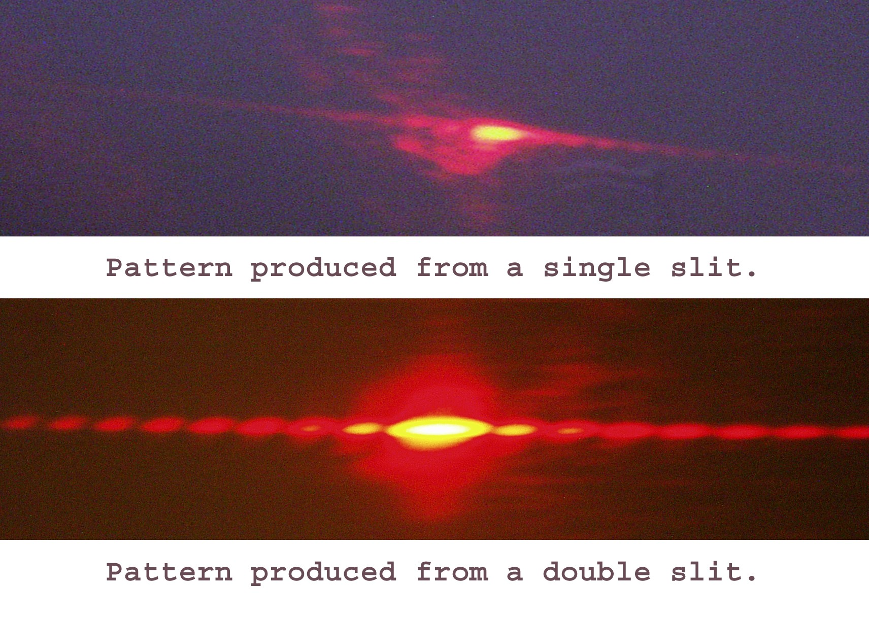 Single slit makes diffraction pattern not single band; double slit makes interference pattern. Same basic apparatus.